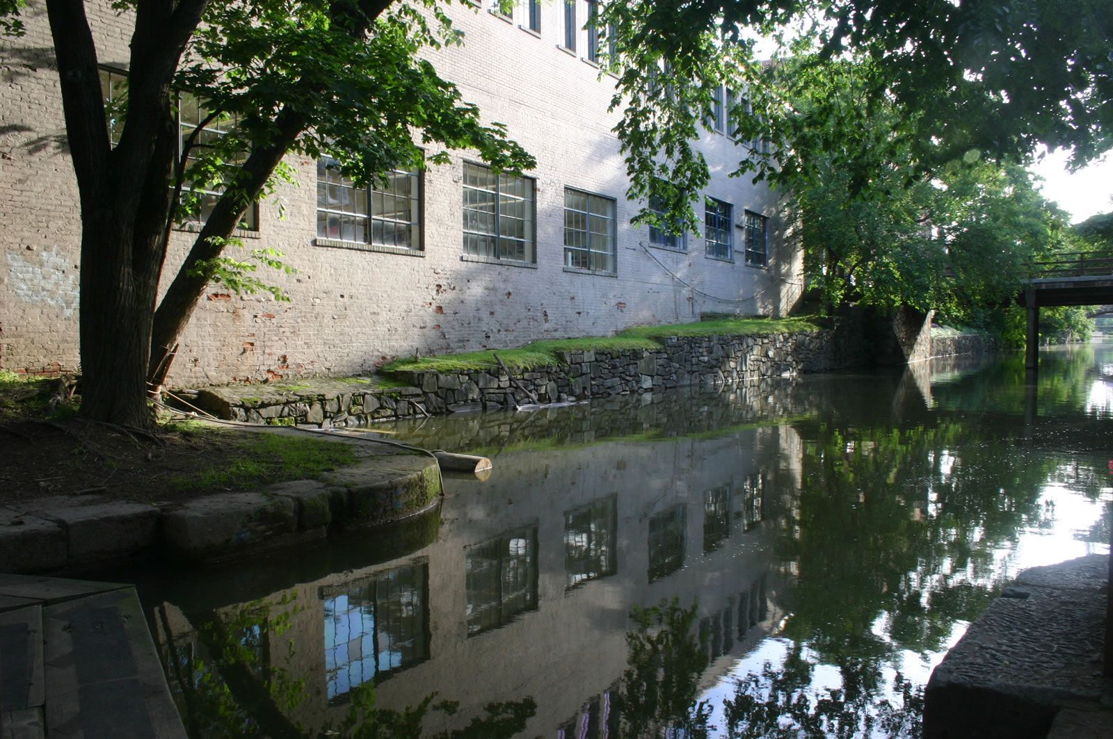 Chesapeake and Ohio Canal in Georgetown, Washington DC.C&O Canal, Georgetown